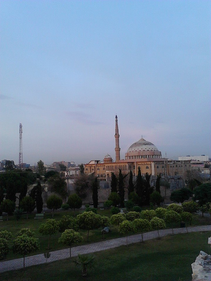 Sawaf Mosque